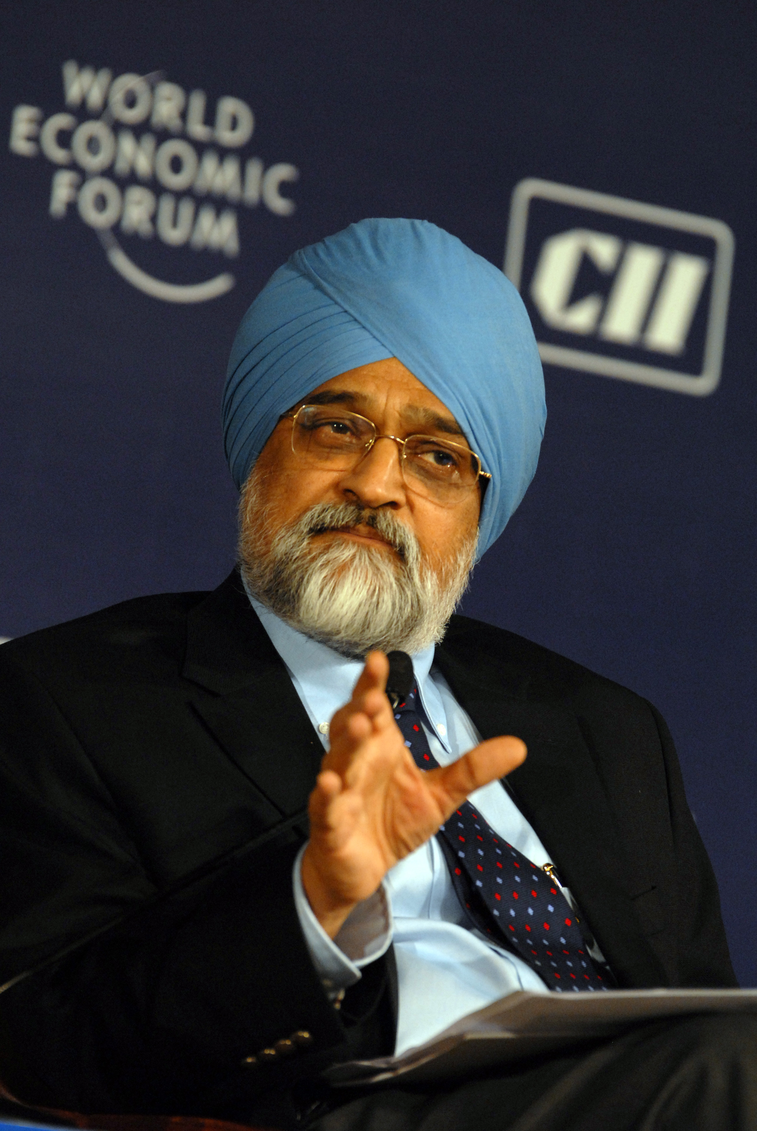 Montek S. Ahluwalia, Deputy Chairman, Planning Commission, India, speaks at the closing plenary of the World Economic Forum's India Economic Summit 2008 in New Delhi, 16-18 November 2008